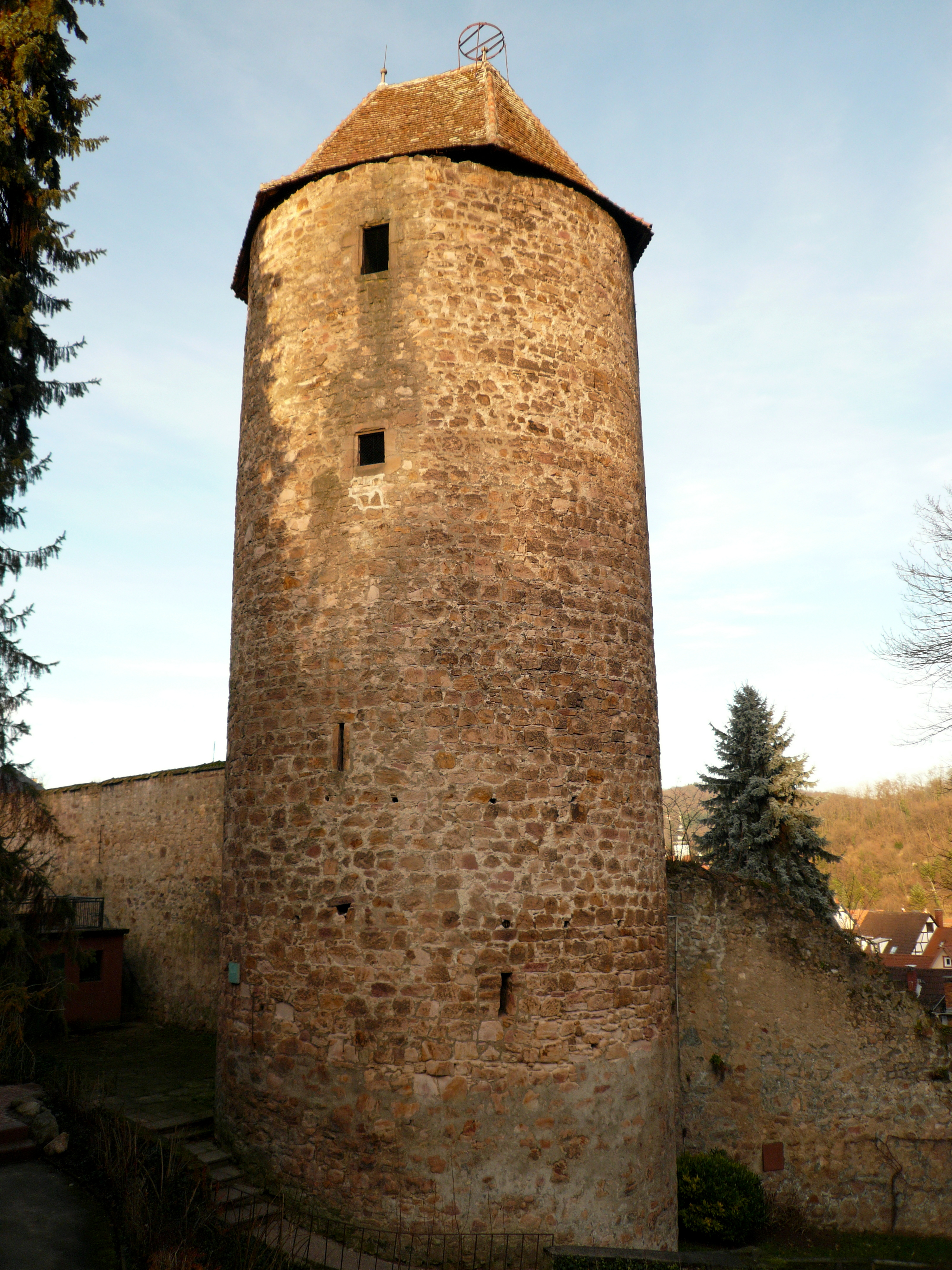 Blauer Hut, a tower of the old town fortification at Weinheim